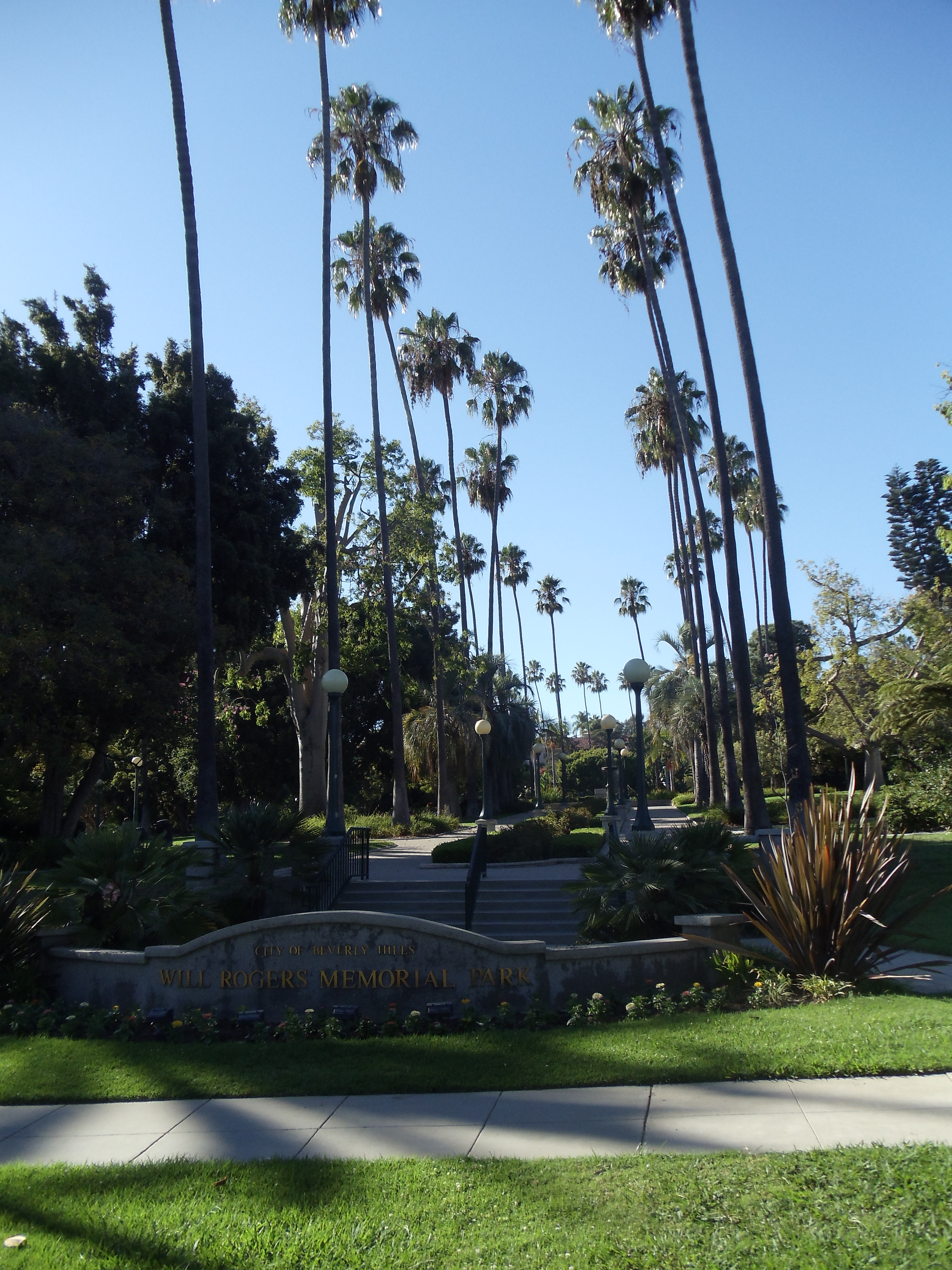 Sign of the Will Rogers Memorial Park in Beverly Hills, California